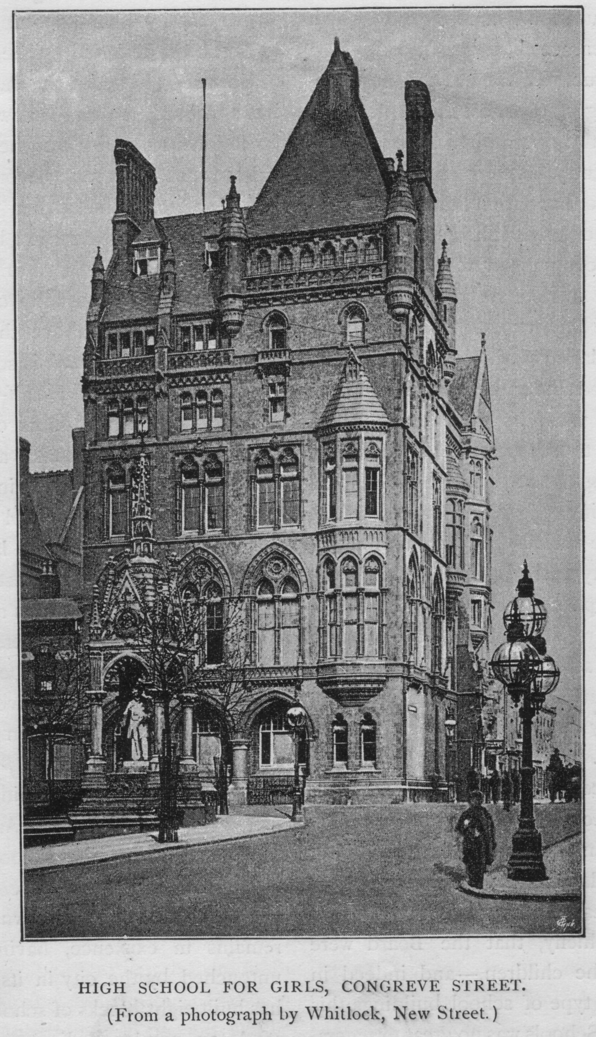 The 1888 home of King Edward VI High School for Girls at the former (but newly built, 1885) Liberal Club in Congreve Street, Birmingham, England